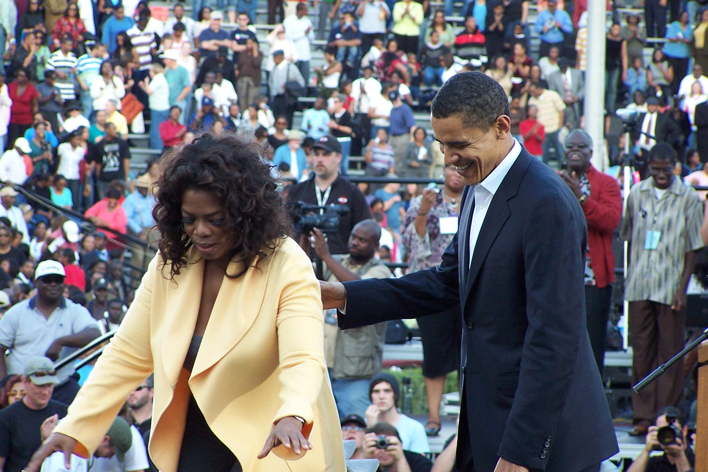 Oprah Winfrey took the stage at William Bryce Football Stadium in Columbia, SC.